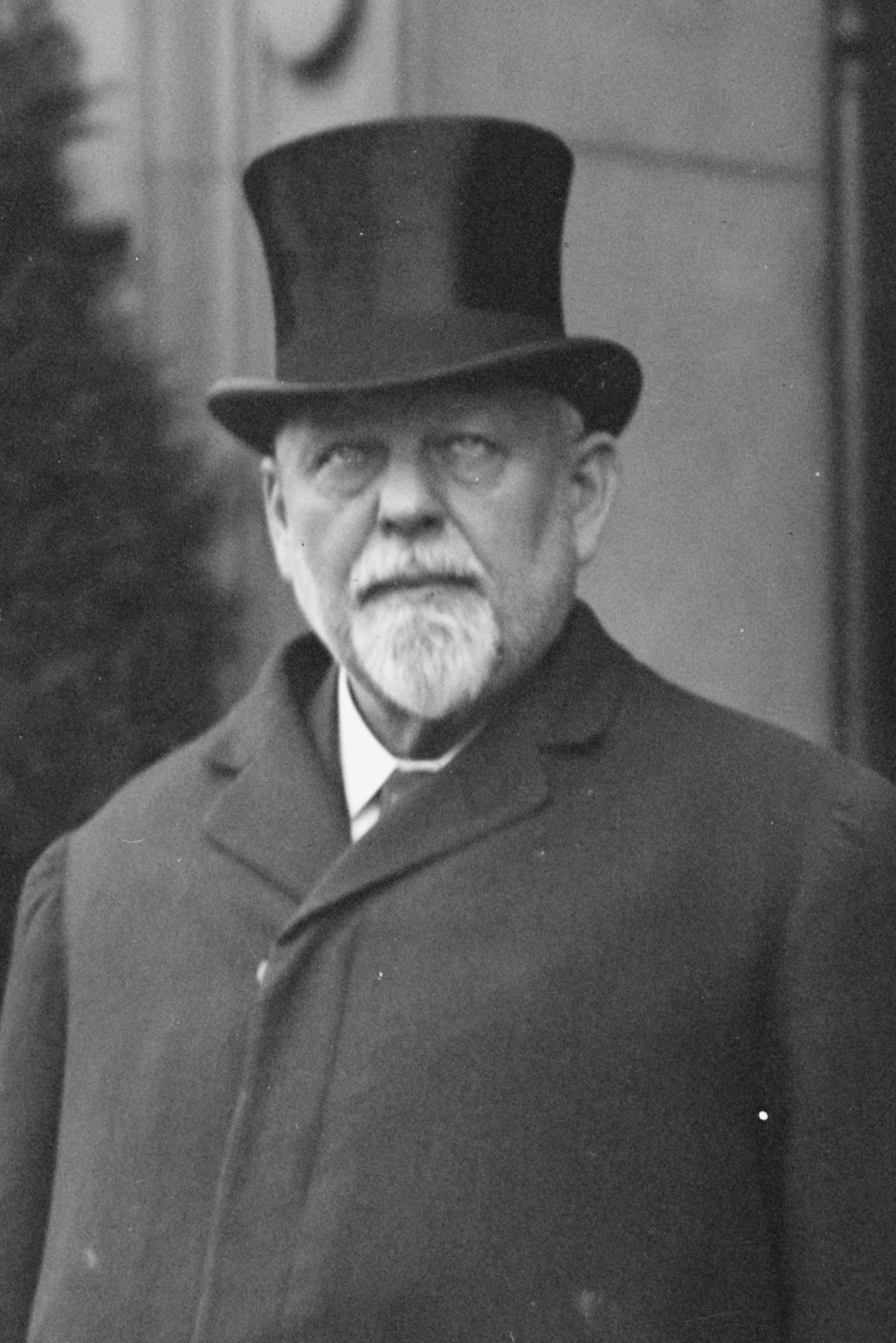 Joseph M. Carey, US Senator from Wyoming and Governor of that State